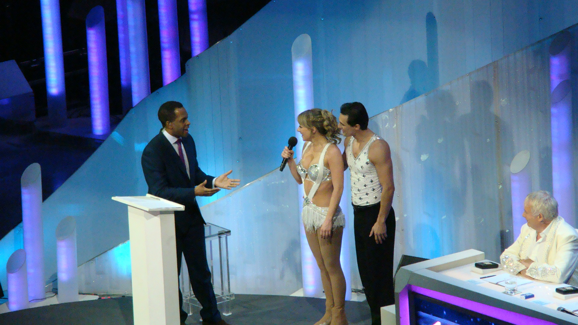 Manchester M.E.N Arena 1.30pm Sunday 1st May 2011.